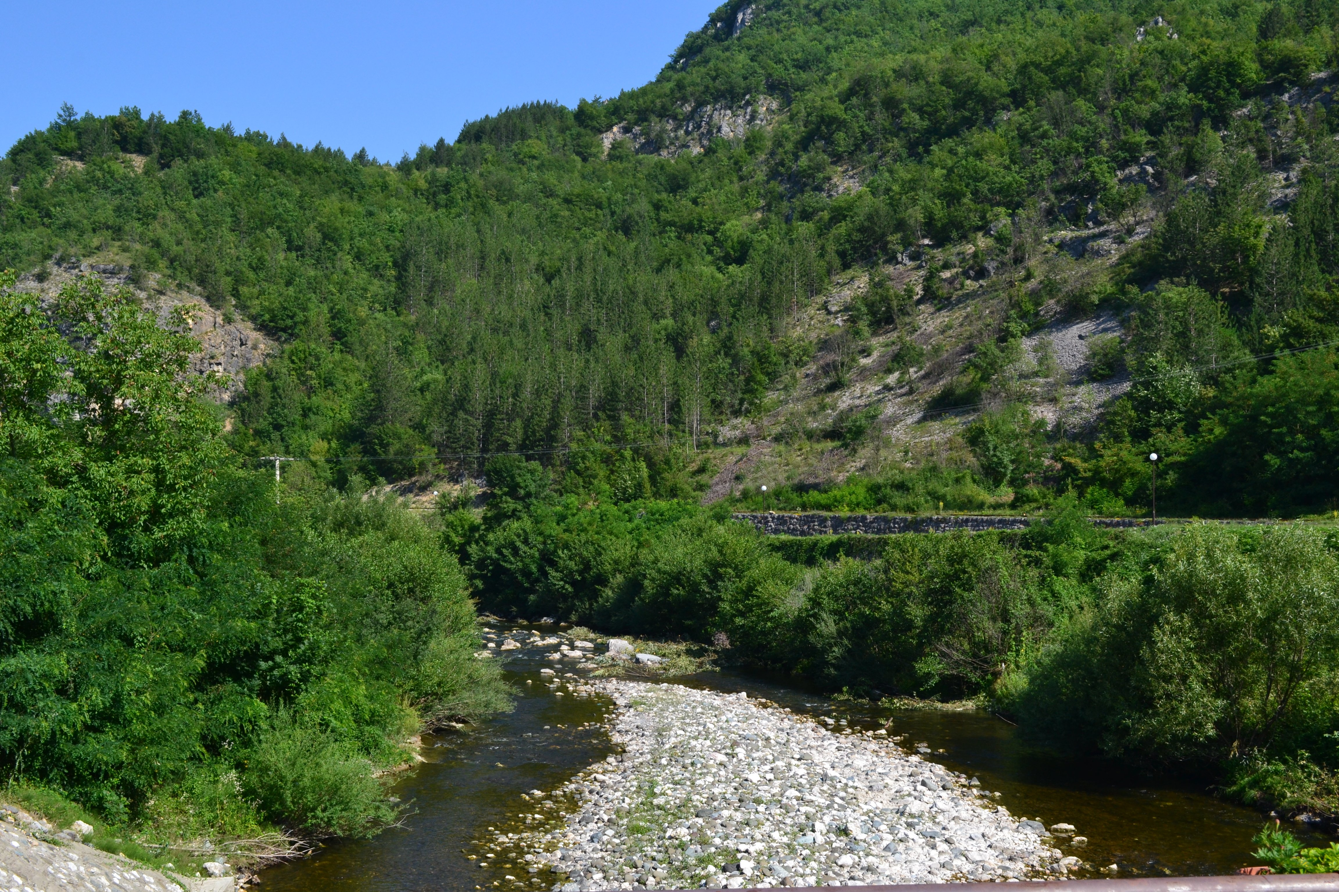 Srpskohrvatski / српскохрватски: This image was uploaded as part of Trace of Soul 2015.